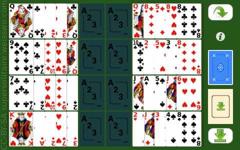 This picture shows how to play Tableau (solitaire). The screenshot is from my pet project SuperSolitaire for the iPhone.